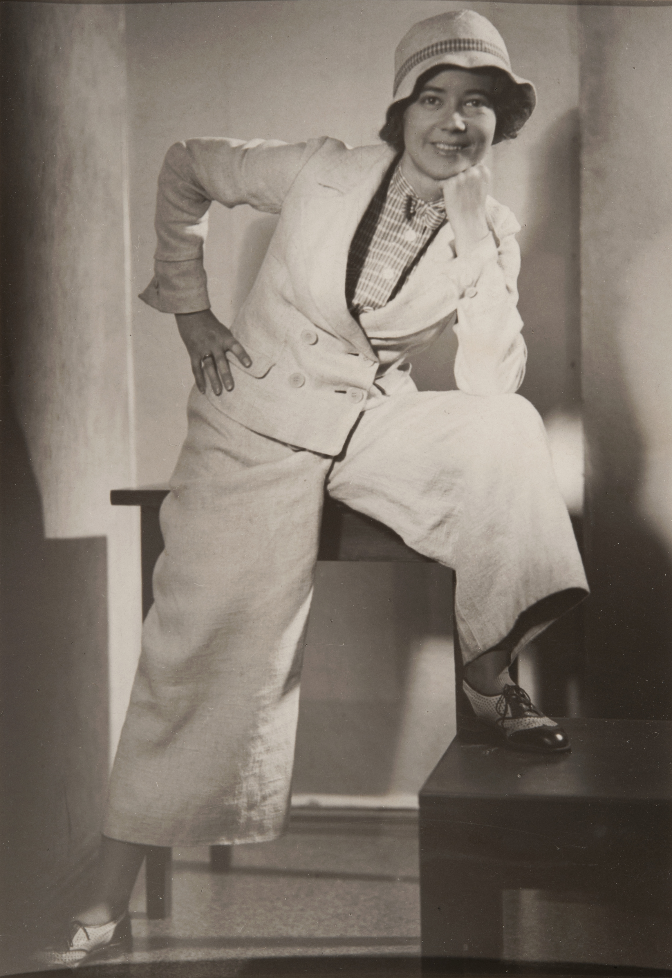 Photograph of the Finnish dancer Irja Hagfors (1905–1988).